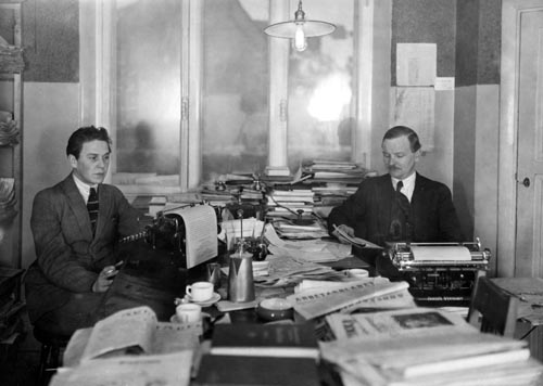 K.-A. Fagerholm and Axel Åhlström at the editorial office of Arbetarbladet.